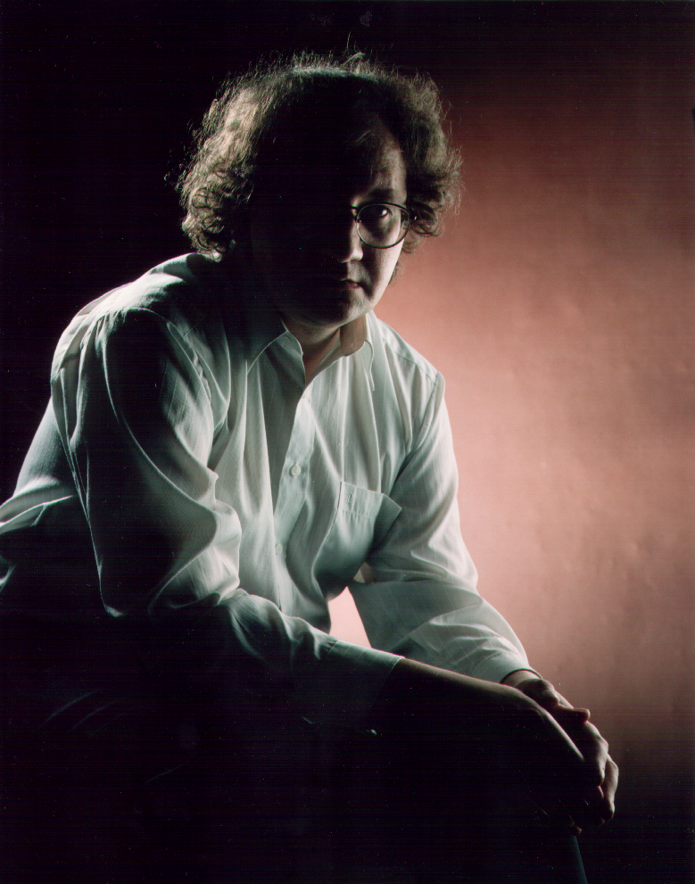 Oleg Postnov, Russian writer, portrait